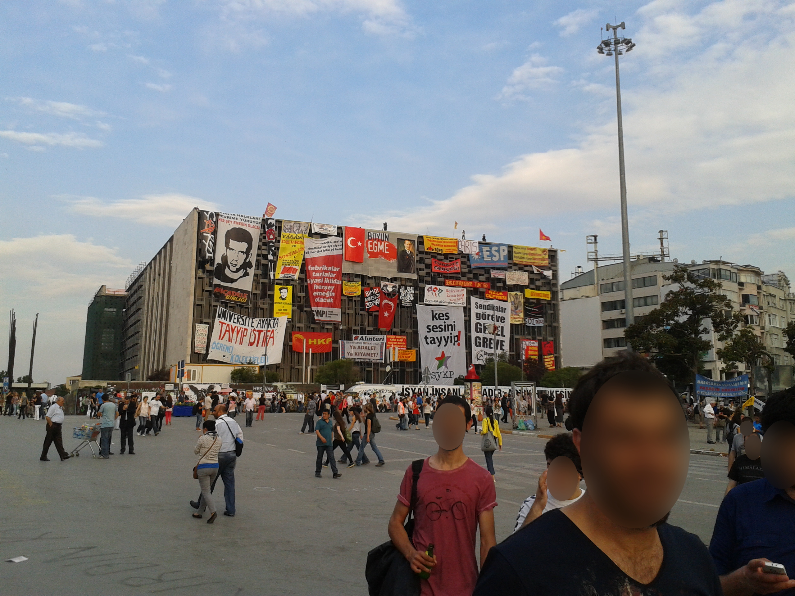 Posters, banners and flags on AKM building (as of 7 June 2013)